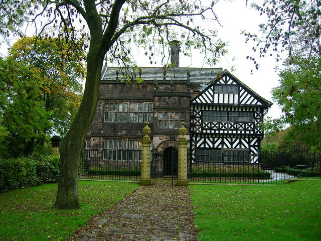 Hall i' th' Wood The view from the south clearly shows the 1648 extension to the original Tudor building.